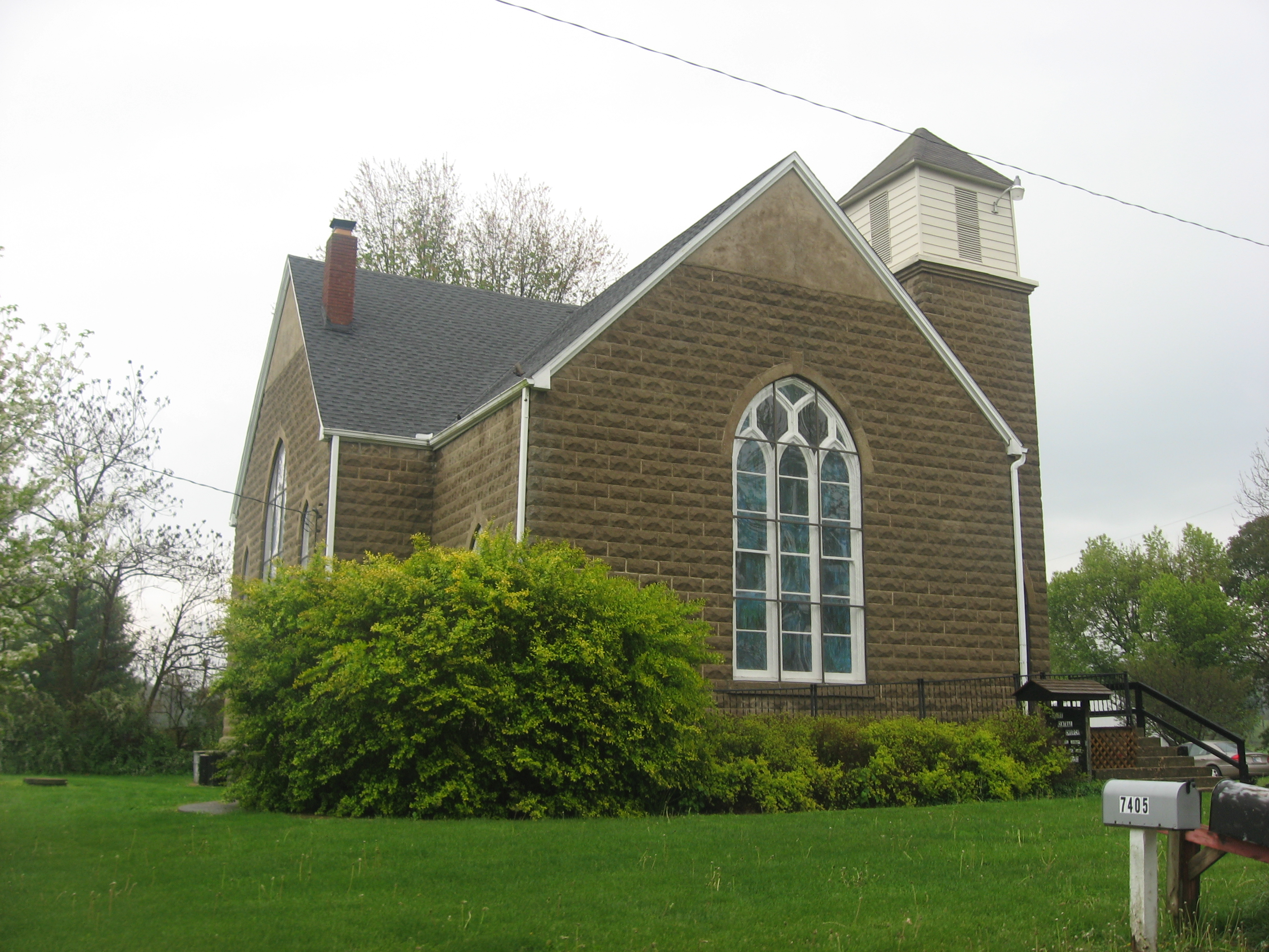 Front of Christ Central Church, located at 8105 West Street at Jordan in Morgan Township, Owen County, Indiana, United States. Built in 1917, it was a Presbyterian church until the late 2000s.